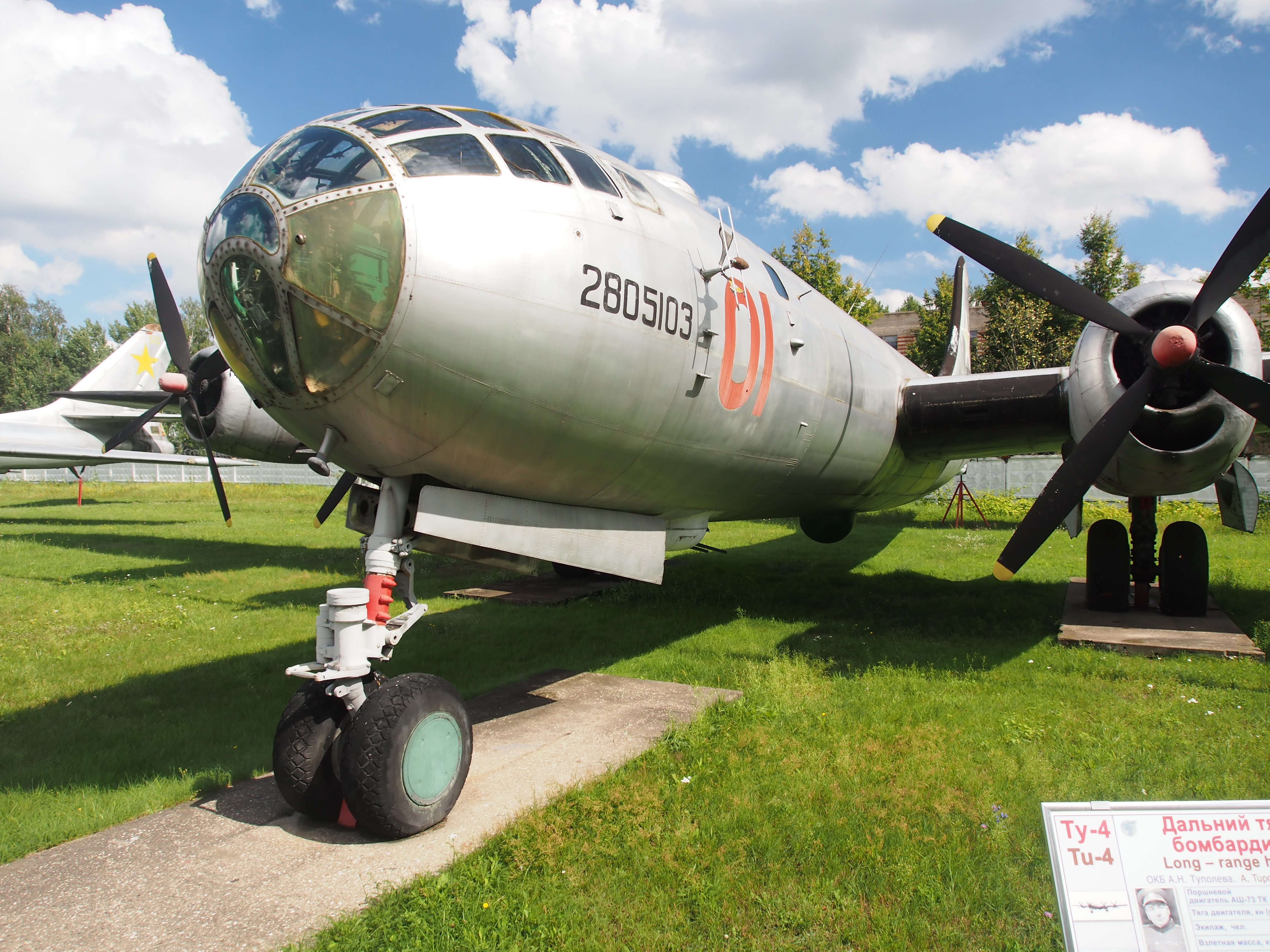 Tupolev Tu-4 at the Central Russian Air Force museum, Monino